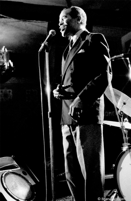 Joh Hendricks at Keystone Korner San Francisco CA 1983. Photo: Brian McMillen /